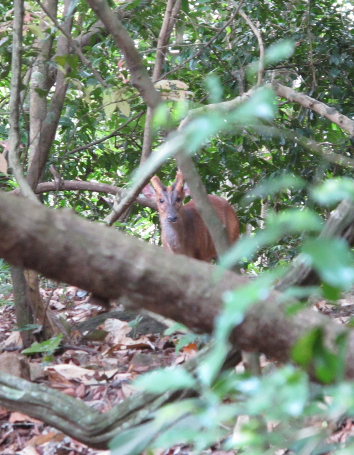 Indian Muntjac, male, in Udawattakele, Sri Lanka